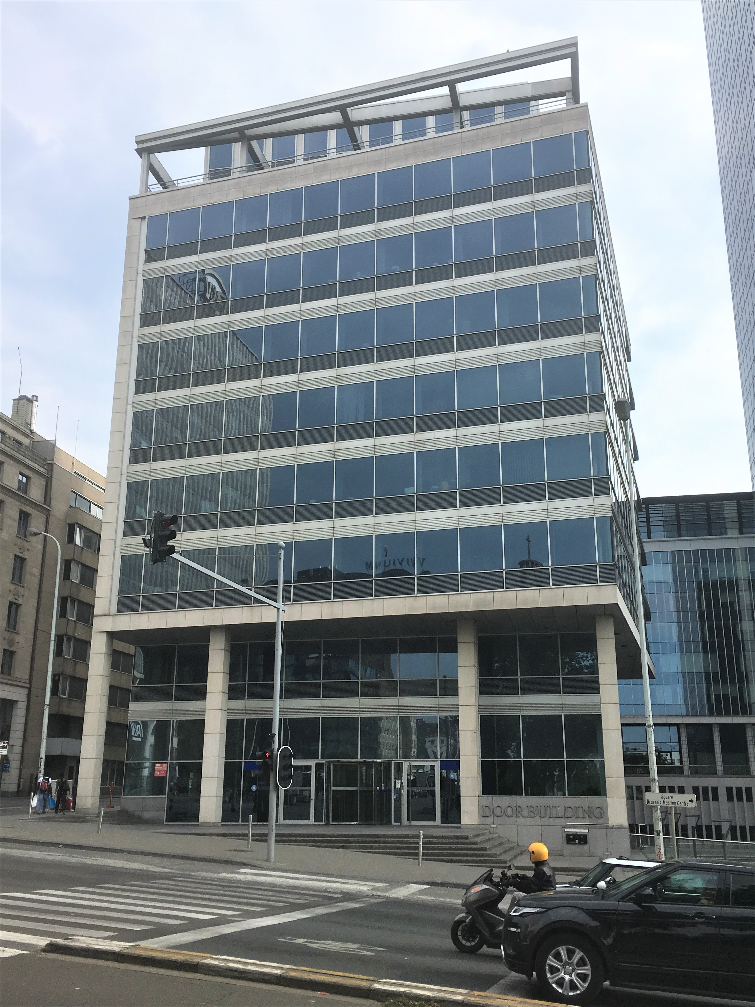 Doorbuilding – Administrative Centre Botanique on July 21, 2018 (Boulevard du Jardin Botanique/Kruidtuinlaan 55, 1000 Brussels)